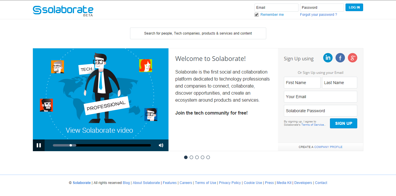 Solaborate homepage as of 9/7/2014